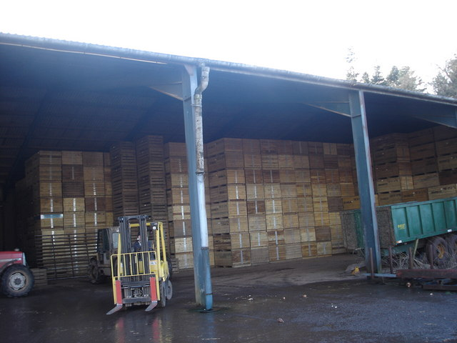 Potato store, Drumness Farm near Tullibardine One of several large farms in area which specialise in potatoes